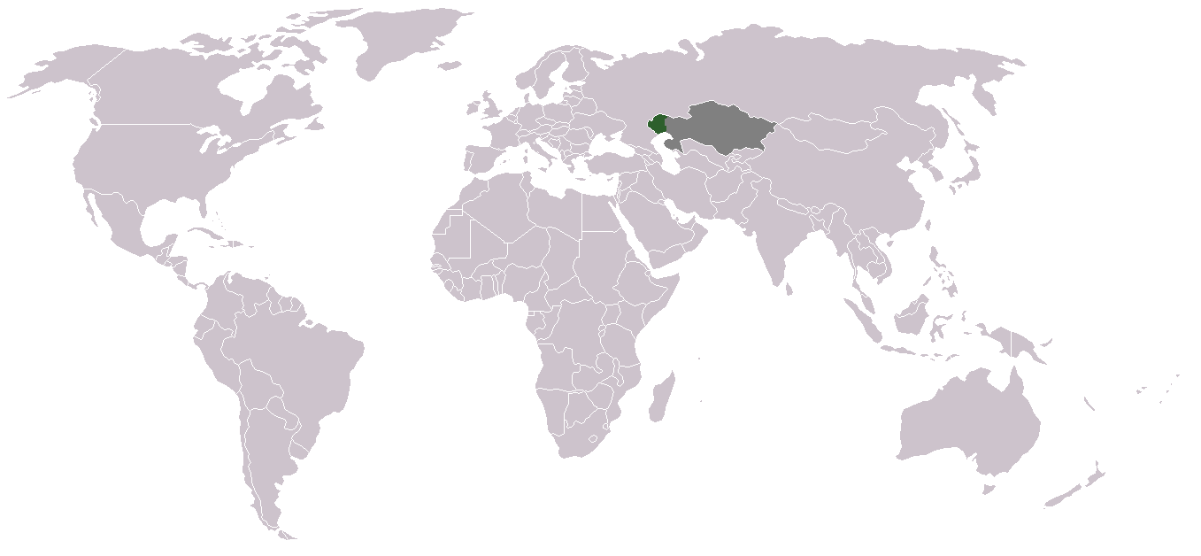 Locator map of Kazakhstan in Eurasia.